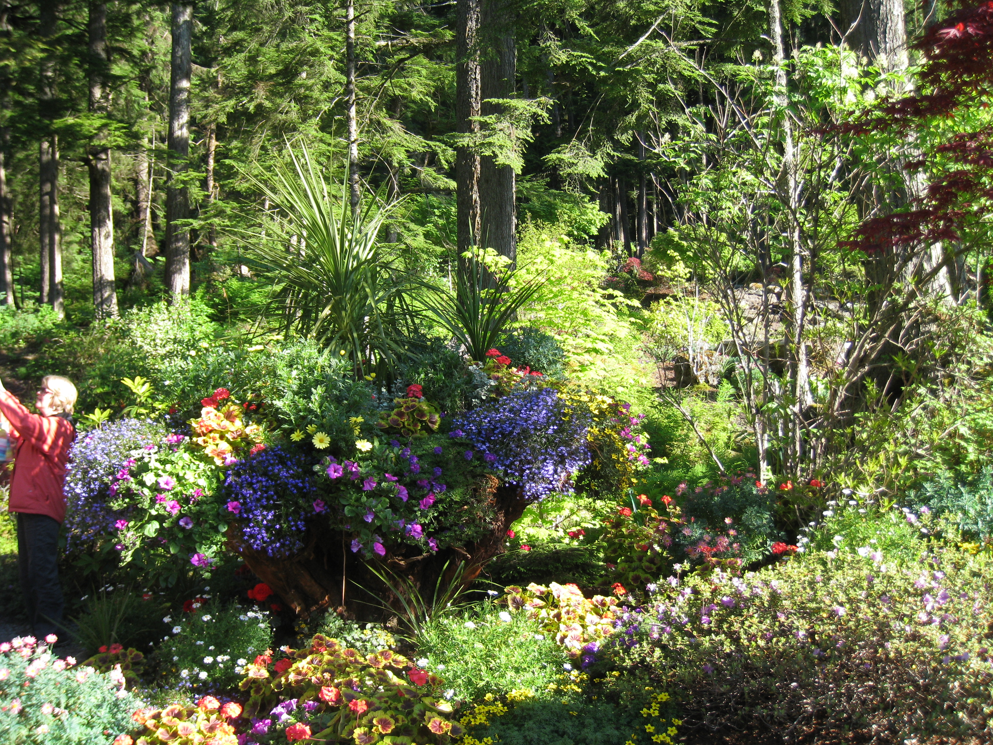 Glacier Gardens outside Juneau, features plantings in upturned trees